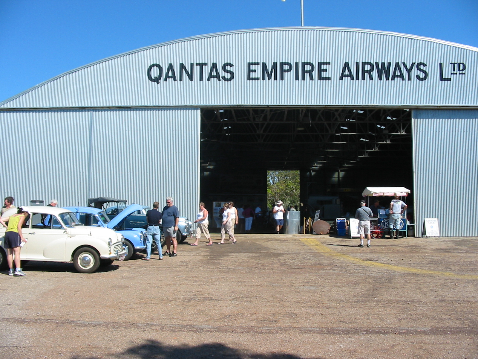 The Parap Hangar was constructed pre WWII and housed Guinea Airways and later Qantas Empire Airways. There is evidence of the first Japanese air raid on Darwin in February 1942 in the way of bullet and shell holes within the hangar. It is currently used by the Motor Vehicle Enthusiasts Club (MVEC) as a workshop and display area.